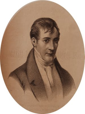 Portrait of José Joaquín Fernández de Lizardi (1776 – 1827), Mexican writer and political journalist. This image is on PD because its copyright has expired. Copyright Status: Public Domain